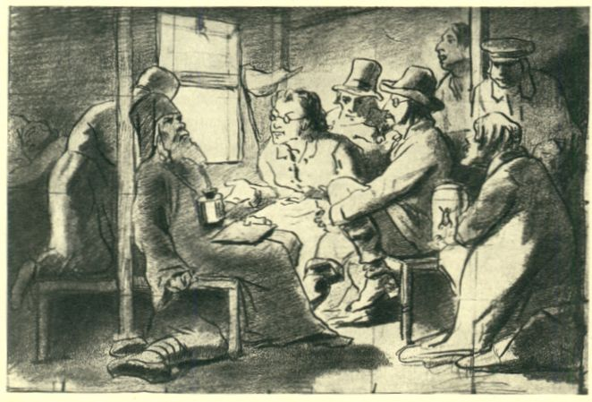 "A disputation about the faith (a scene in a railcar)" by Vasily Perov